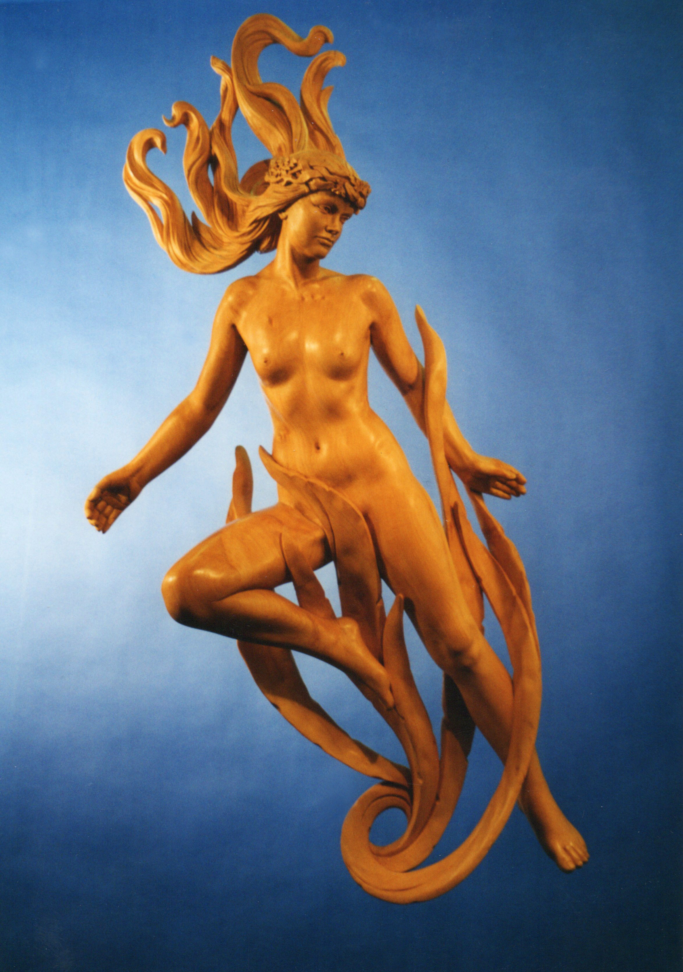 Salacia - Denis Parsons' interpretation from Greek mythology. 5' high Lime wood figure. Private commission for a swimming pool.